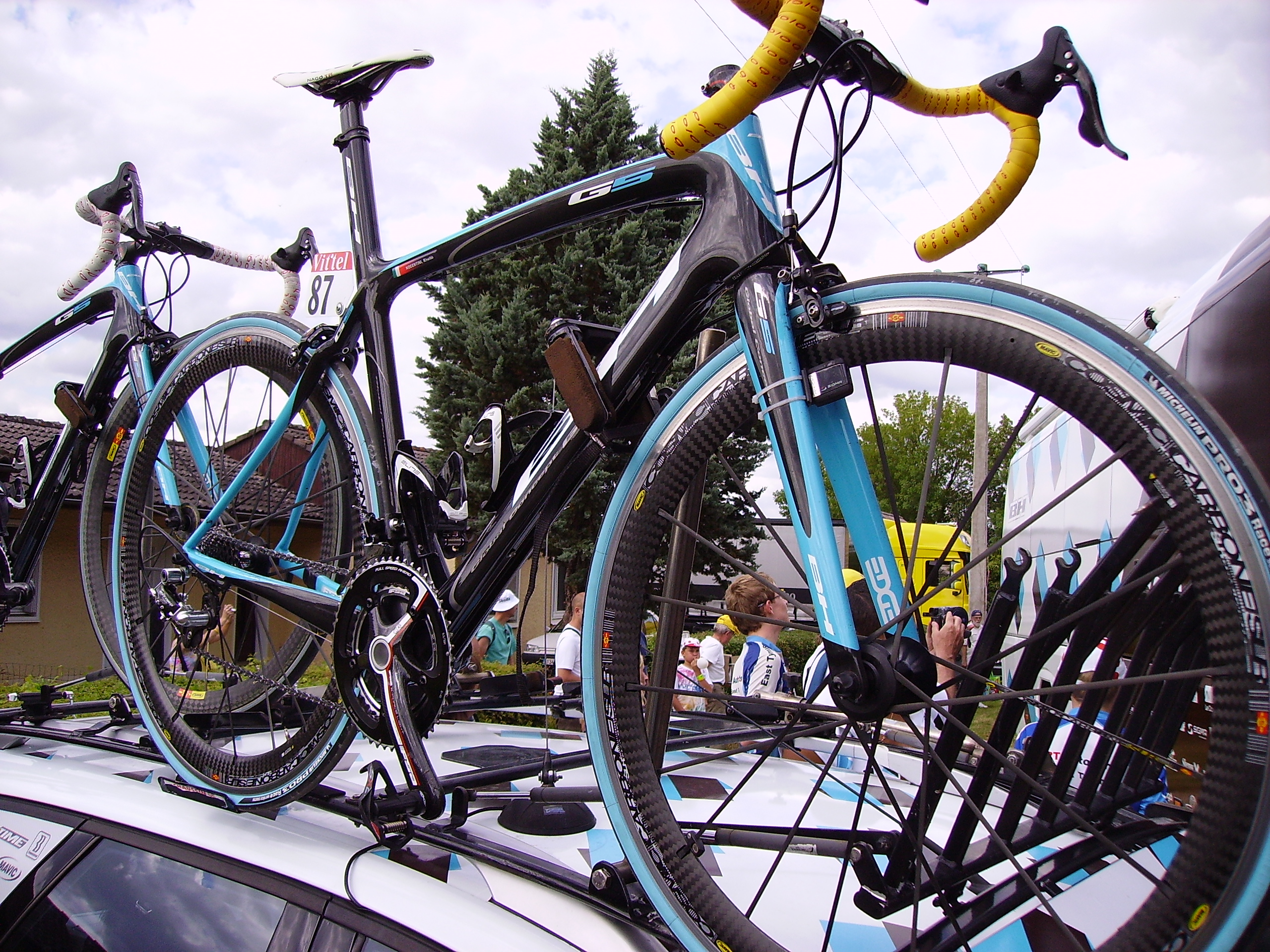 Rinaldo Nocentini's BH Bikes model G5 of the cycling team Ag2r-La Mondiale. Photo taken after the finish of the 11th stage of 2009 Tour de France in Saint-Fargeau (Yonne).